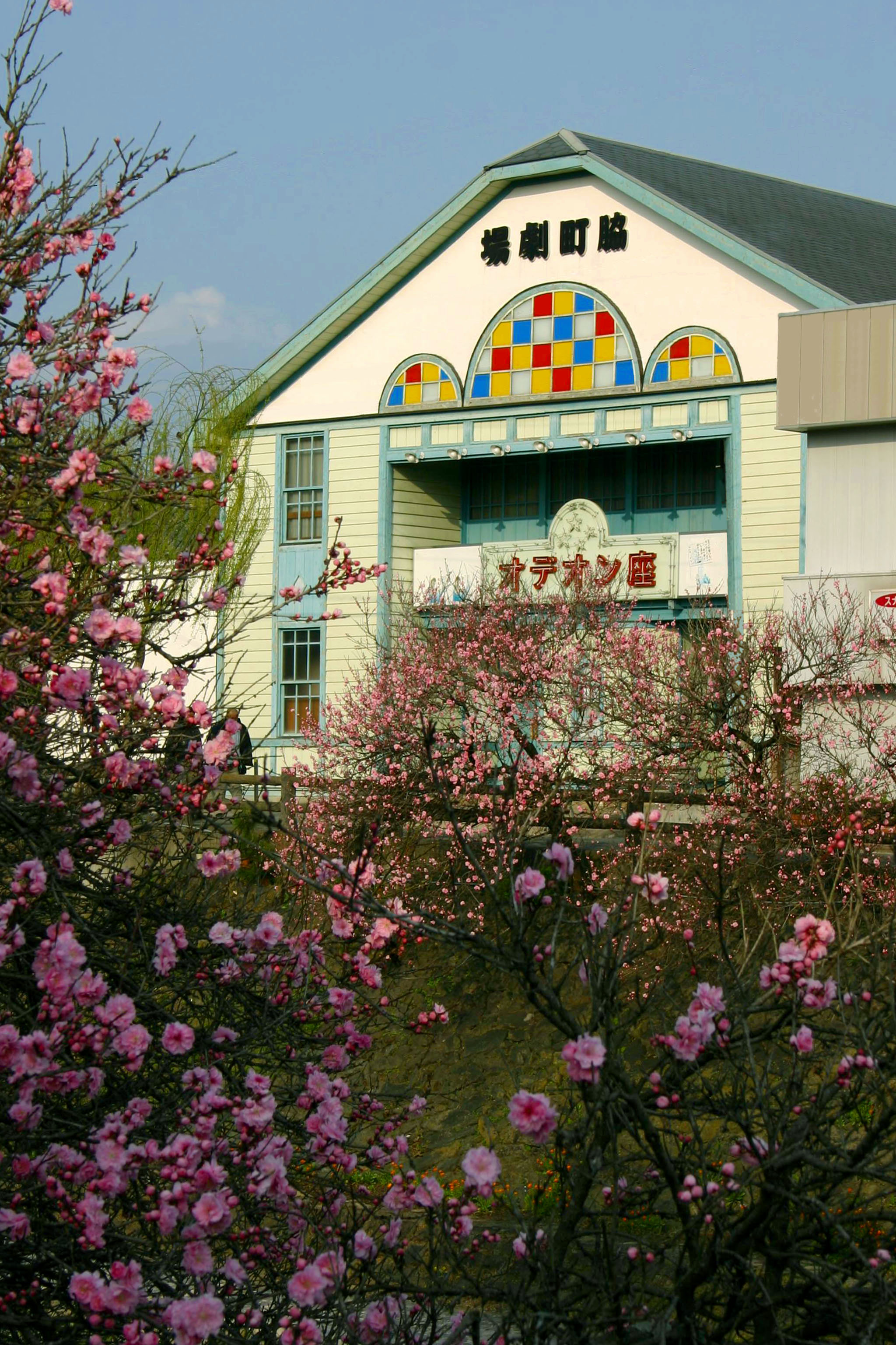 Wakimachi Theater Odeonza in Mima City